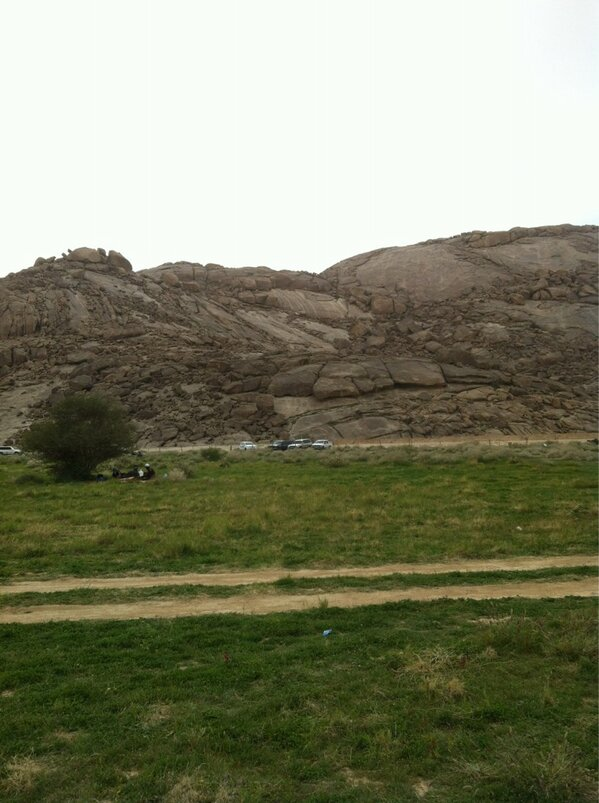 جبل امرة